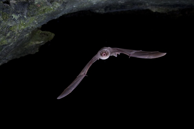 Common bent-wing bat flying, Miniopterus scheibersii